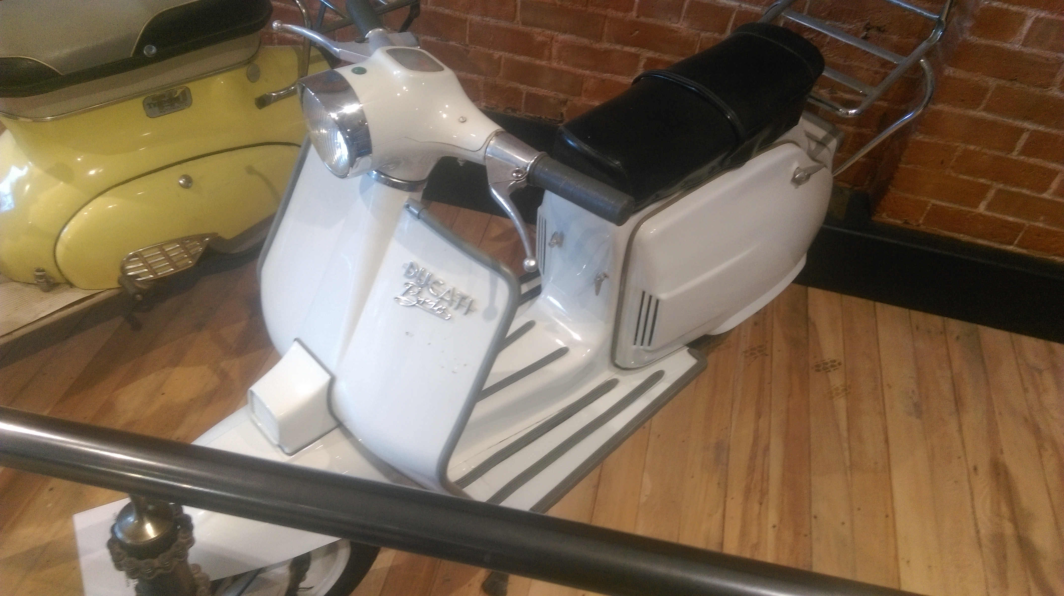 1968 Ducati Brio 100 scooter, Invercargill, New Zealand